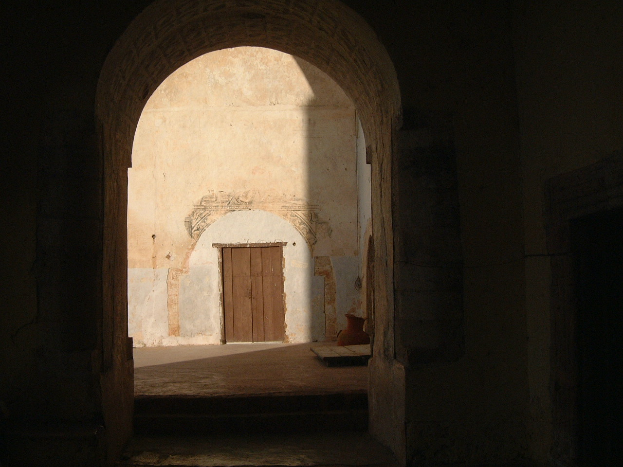 Arch in the church at Maní, Yucatán, Mexico